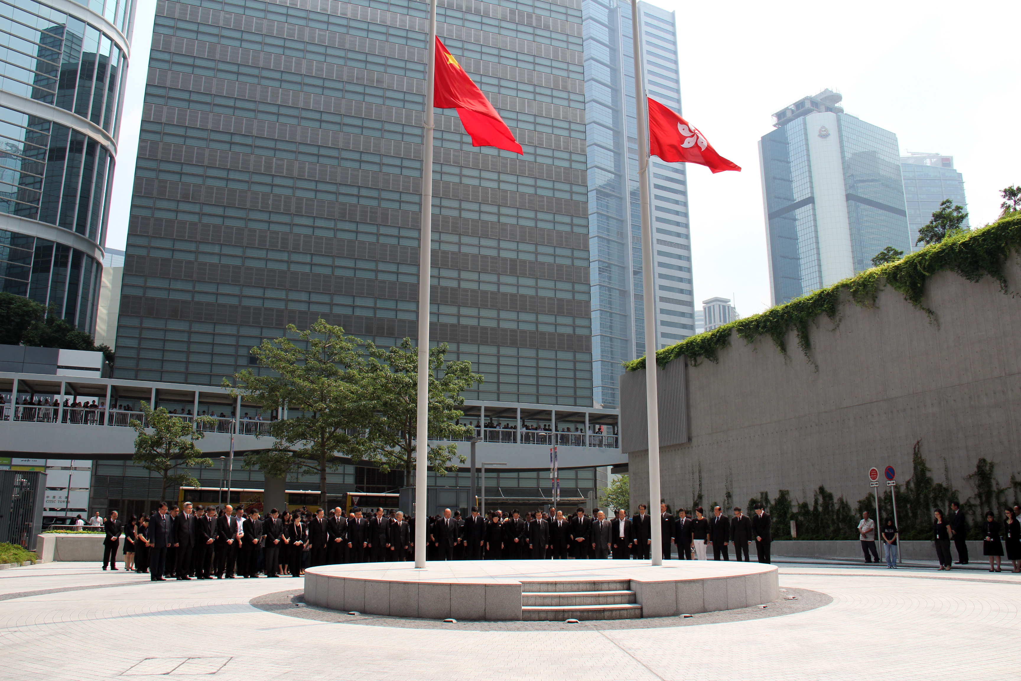 Hong Kong Chief Executive Leung Chun-ying leads the three minutes of silence at noon of 4 October, for the victims of the 2012 Lamma Island ferry collision.